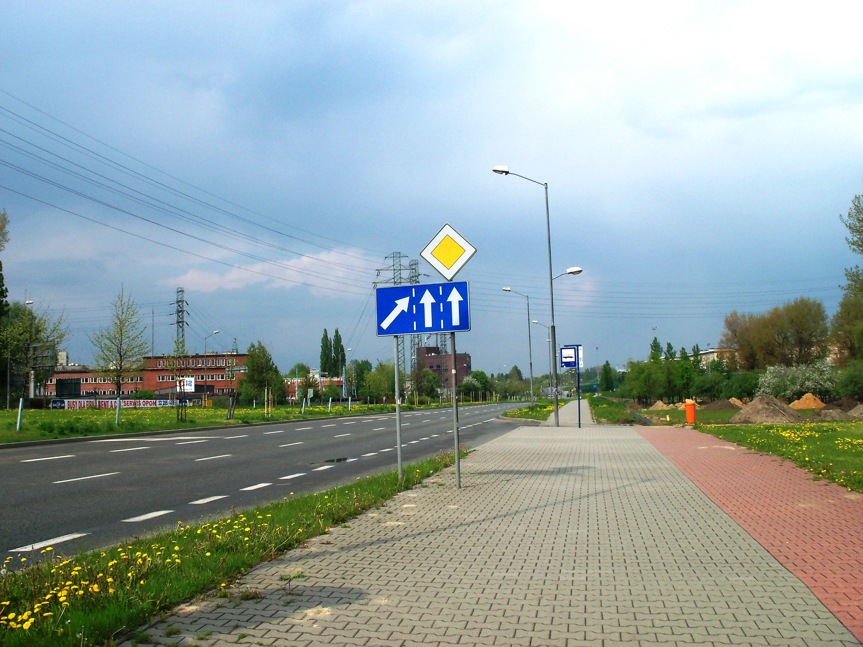 Stęślickiego Street in Katowice